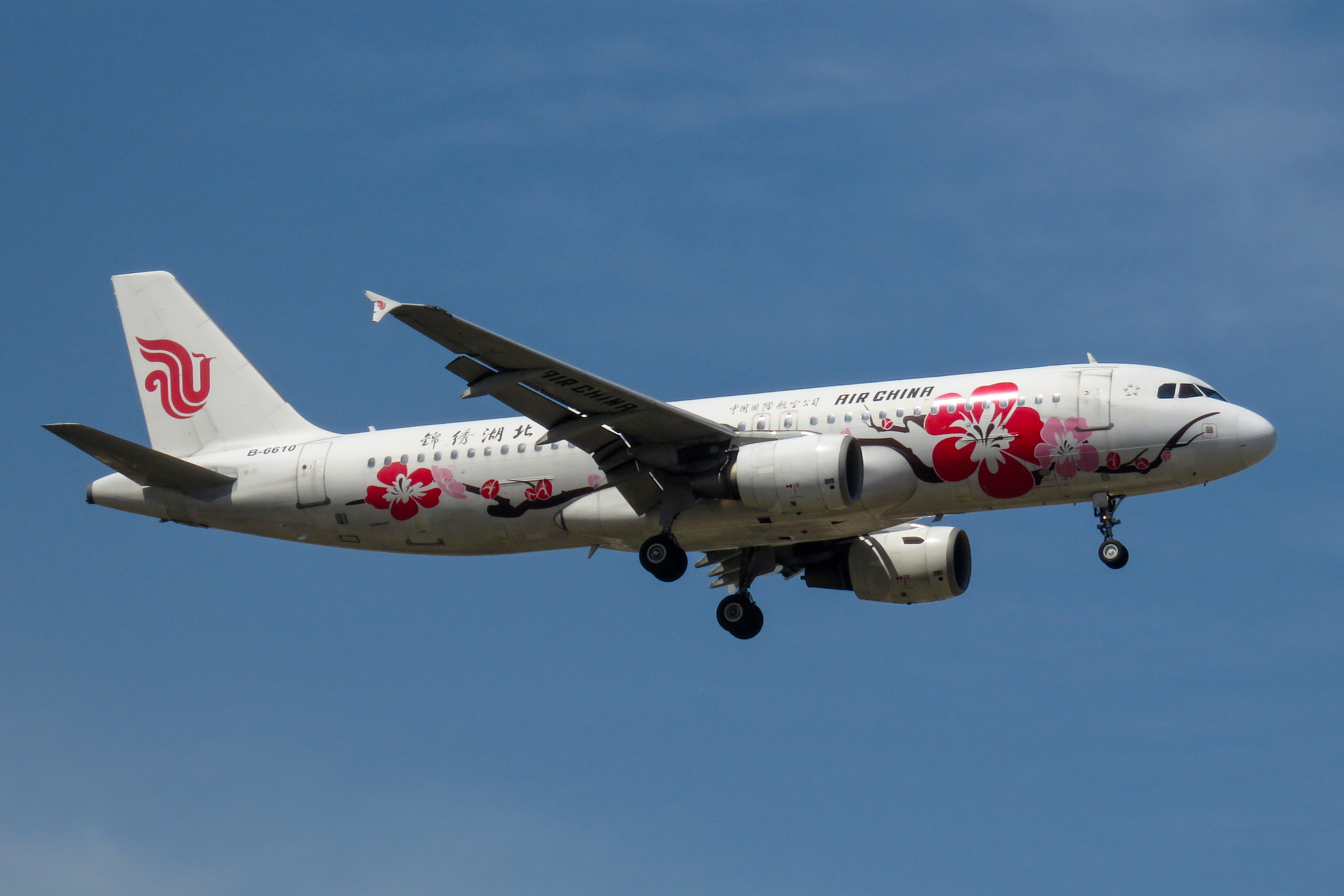 Air China 8201 from Wuhan. Two days...